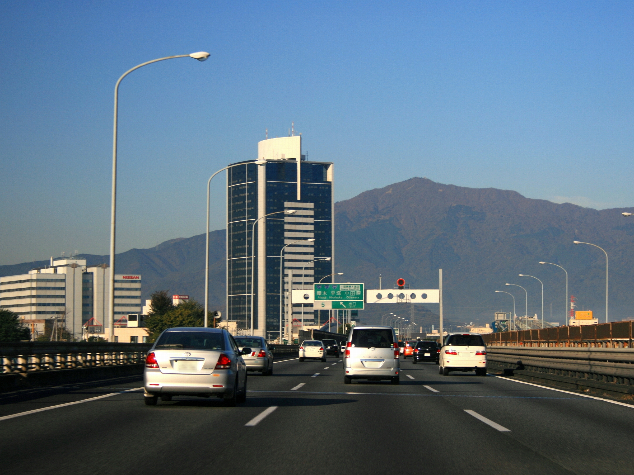 Atsugi Interchange on the Tomei Expressway, with Oyama in the background